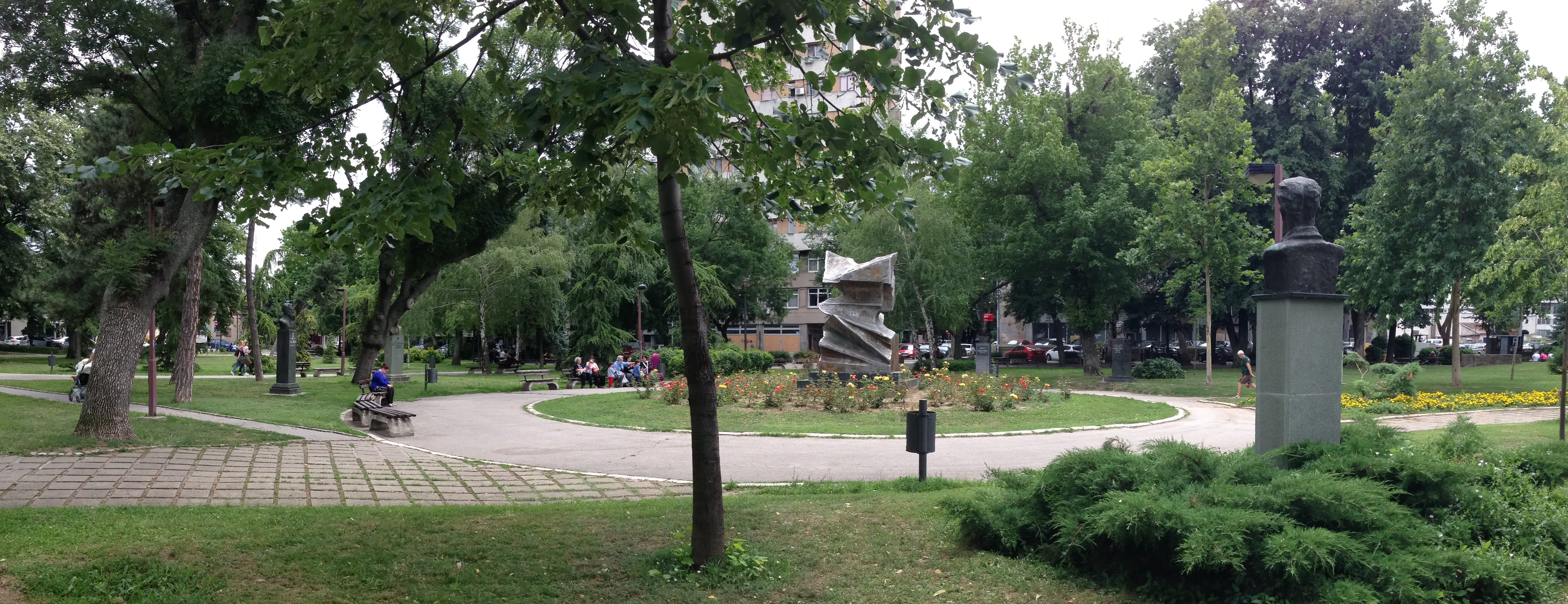 Park of the hero of the National Liberation War in Nis.